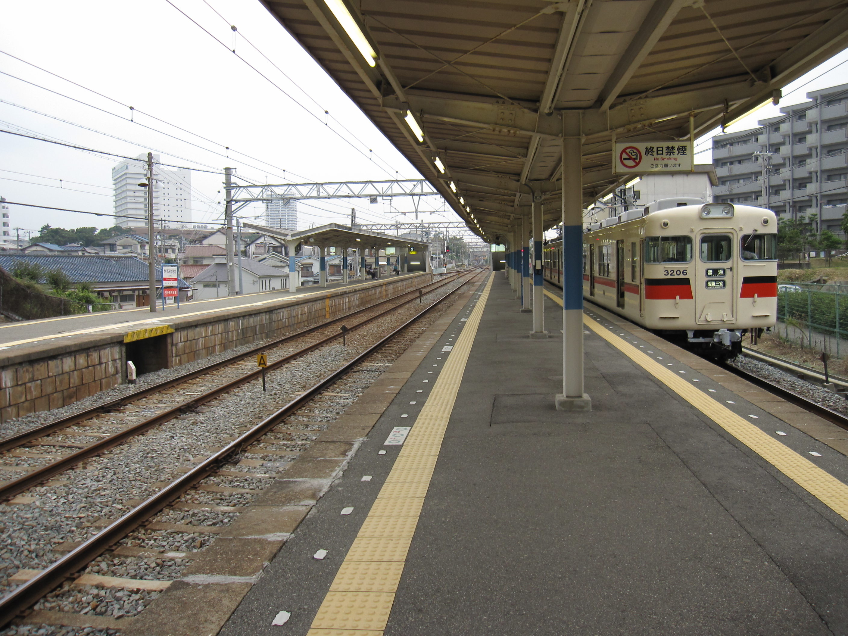 Kasumigaoka Station platforms